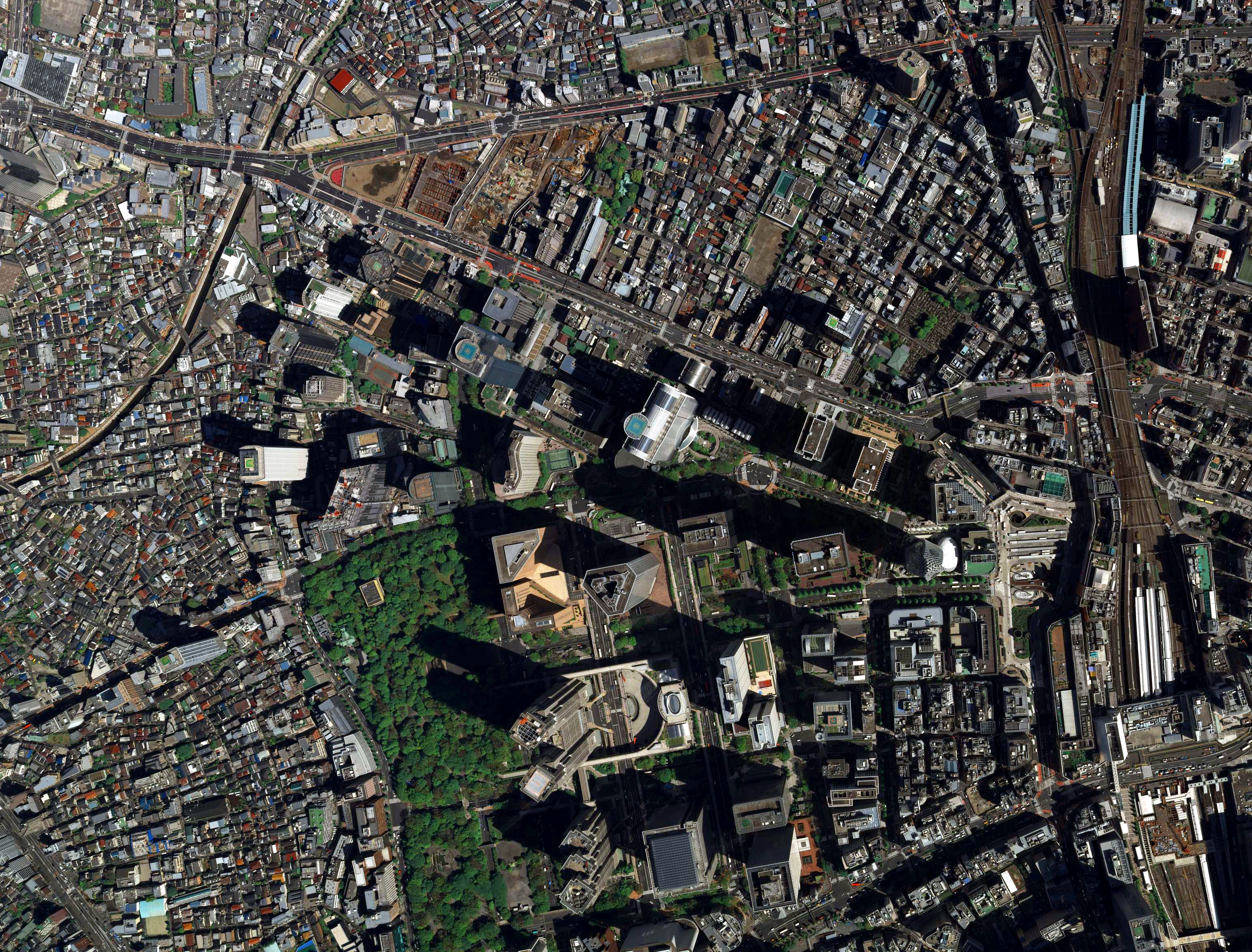 The Geographical Survey Institute took the aerial photograph in Shinjuku Ward, Tōkyō Metropolis on April 27, 2009.